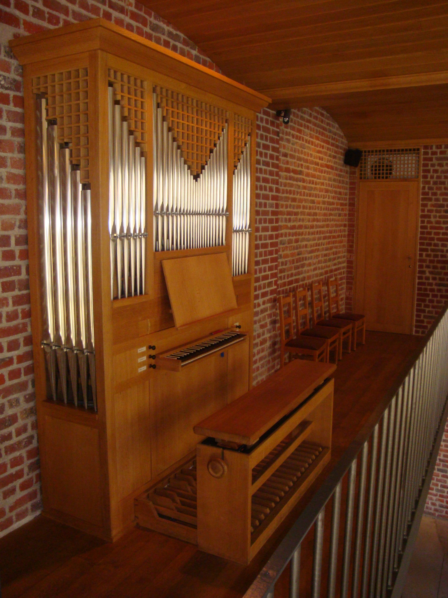 Chapelle de la Résurrection, rue Van Maerlantstraat 22-24 B-1040 Brussel Bruxelles, Interior: Organ (Etienne Debaisieux, Belgium)